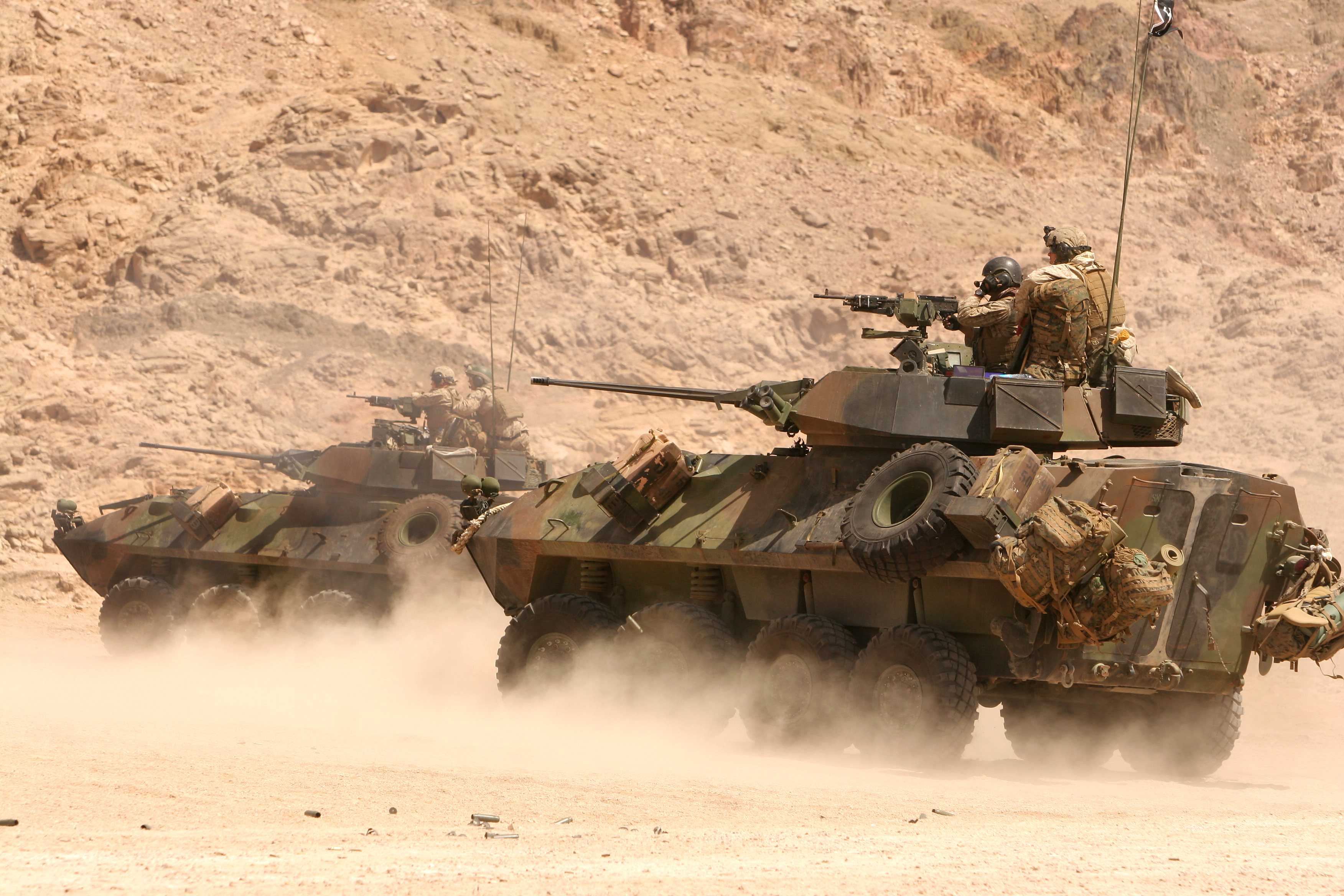 U.S. Marine crews practices live-fire movements during range training in the Middle East, June 5, 2009. The Marines are assigned to the 1st Battalion, 1st Marine Regiment, 13th Marine Expeditionary Unit.